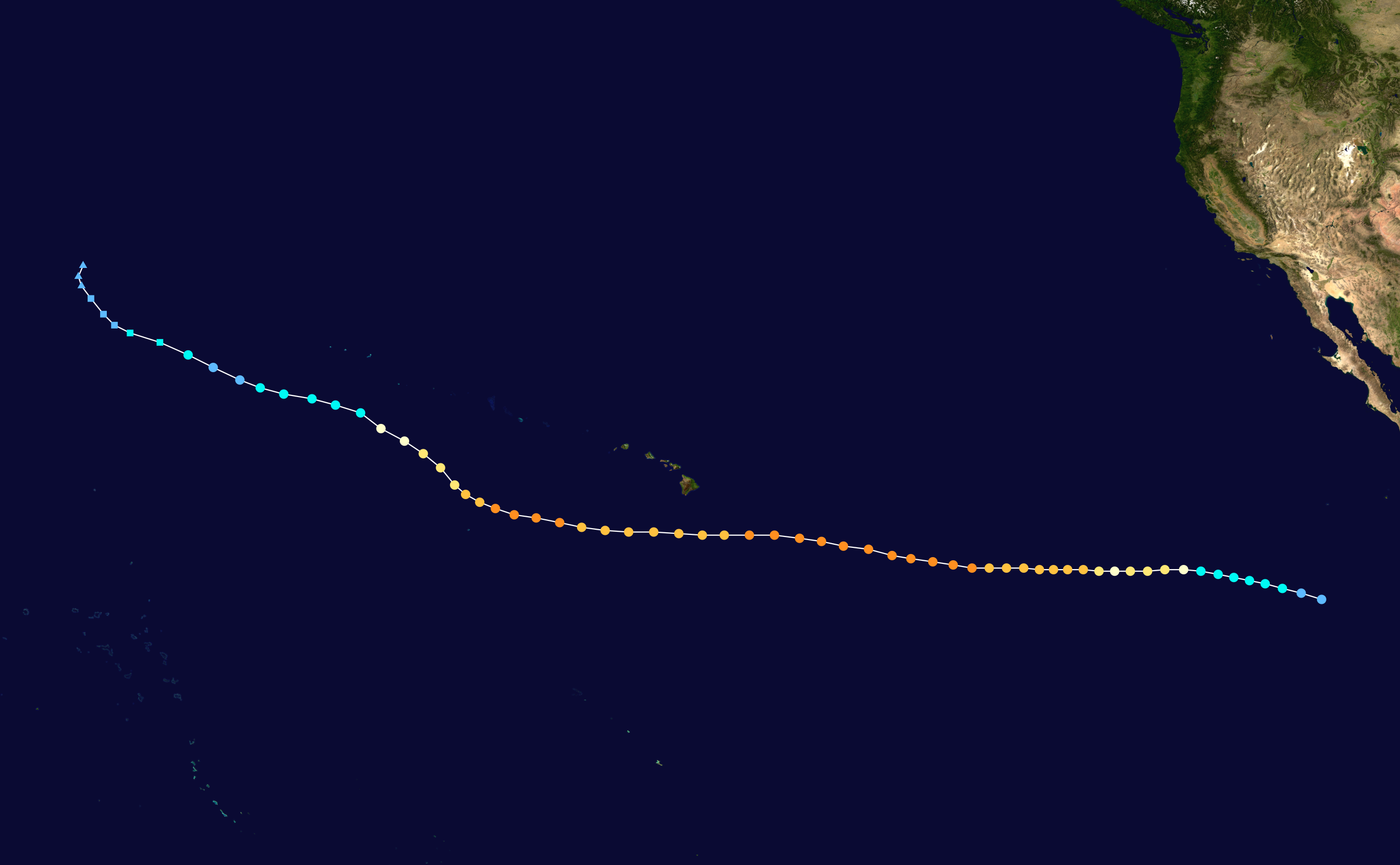 Track map of Hurricane Hector of the 2018 Pacific hurricane season and the 2018 Pacific typhoon season. The points show the location of the storm at 6-hour intervals. The colour represents the storm's maximum sustained wind speeds as classified in the Saffir–Simpson scale (see below), and the shape of the data points represent the nature of the storm, according to the legend below. Saffir–Simpson scale Tropical depression≤38 mph≤62 km/h Category 3111–129 mph178–208 km/h Tropical storm39–73 mph63–118 km/h Category 4130–156 mph209–251 km/h Category 174–95 mph119–153 km/h Category 5≥157 mph≥252 km/h Category 296–110 mph154–177 km/h Unknown Storm type Tropical cyclone Subtropical cyclone Extratropical cyclone / Remnant low / Tropical disturbance / Monsoon depression